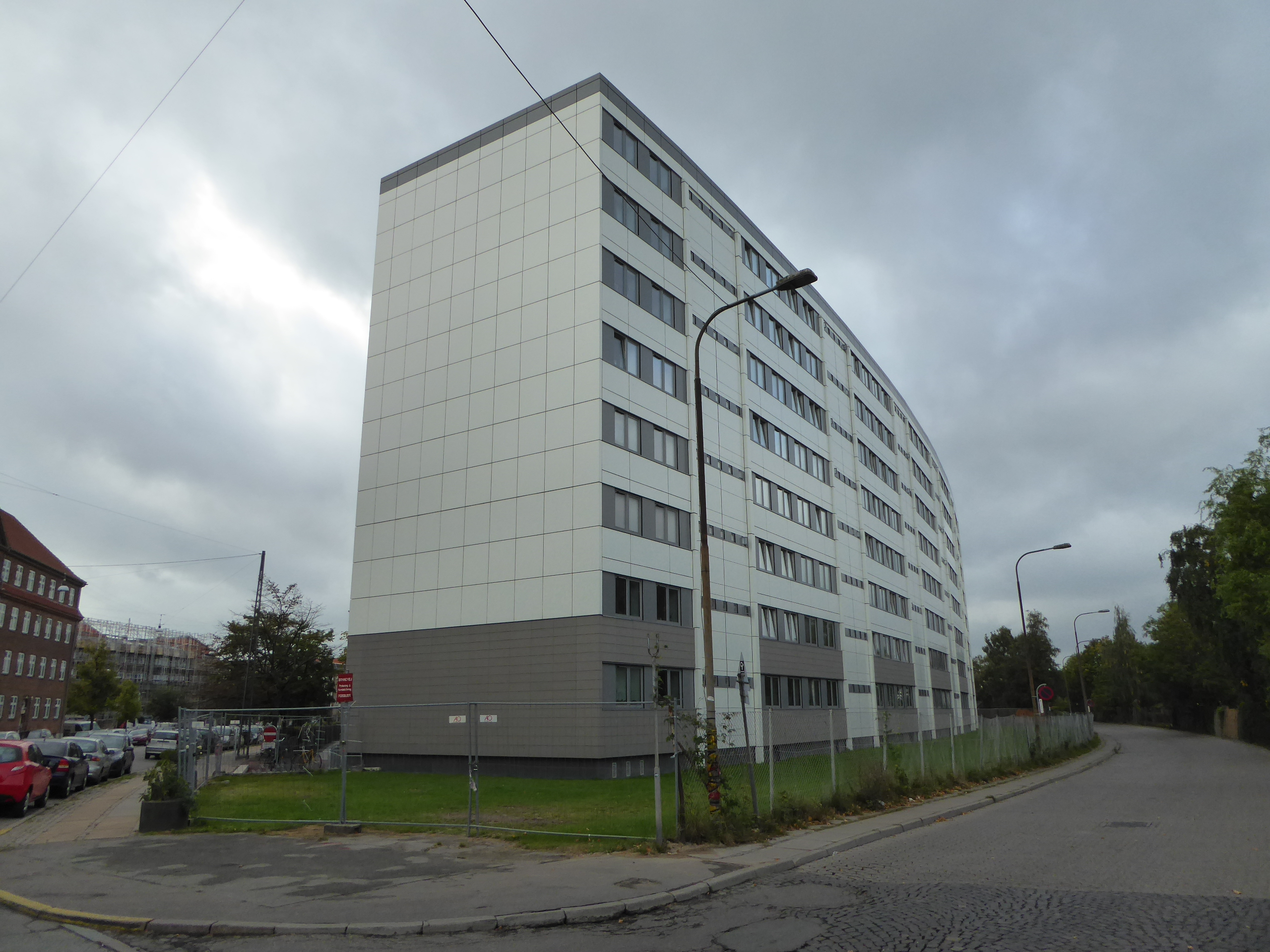 The housing cooperative A/B Bellmansgade 7-37 at Sibeliusgade in Østerbro in Copenhagen.